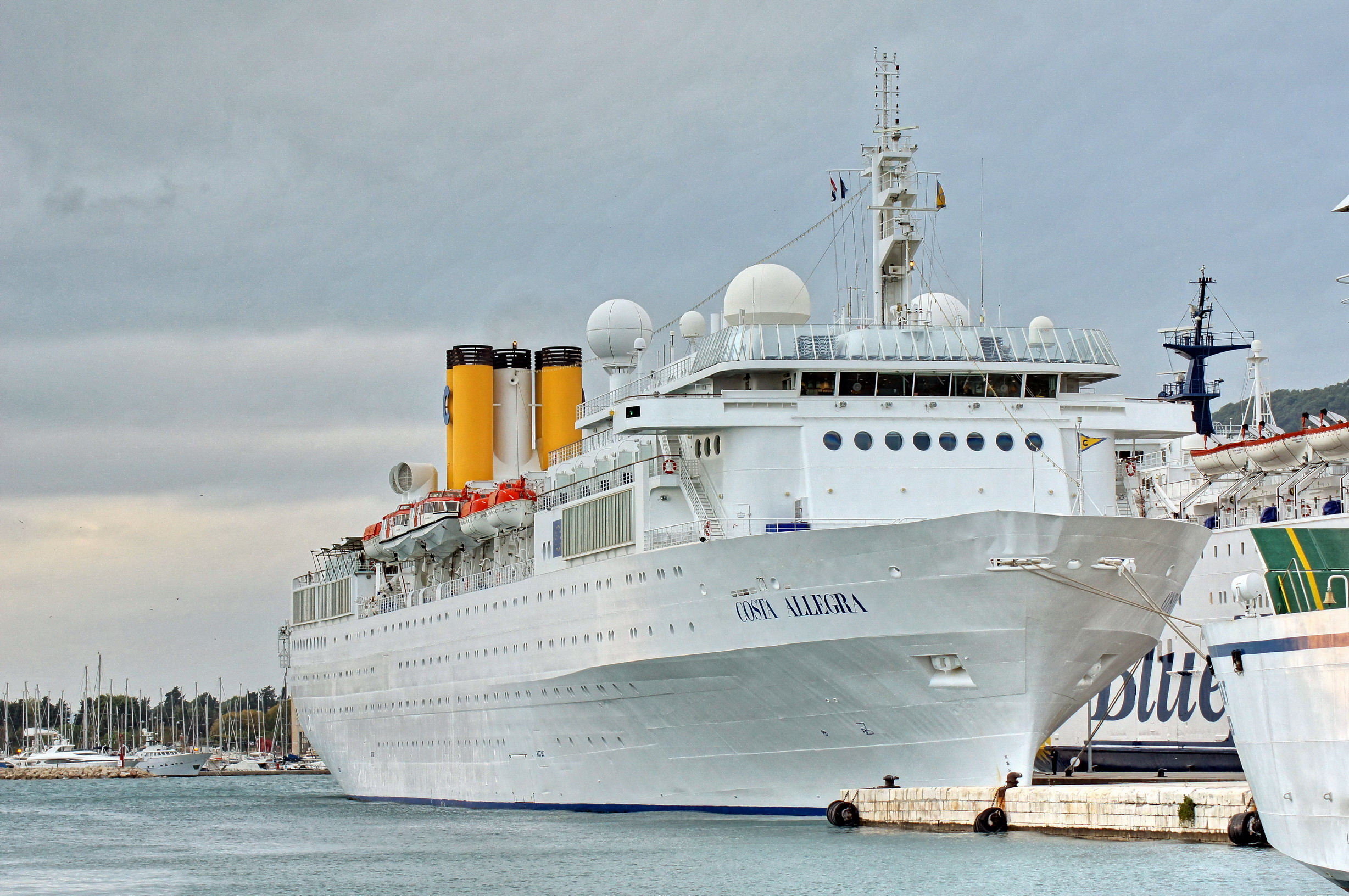 Costa Allegra (ship, 1969) IMO 6916885; in Split, 2011-10-27. Some slight damage of the prow visible.